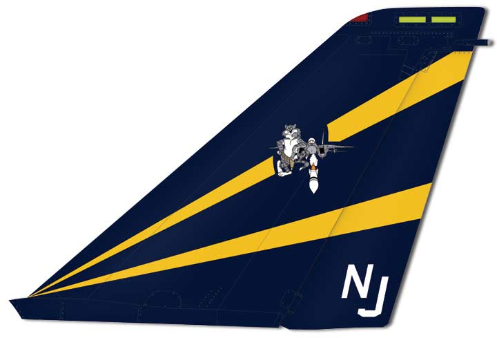 The tail of a US Navy F-14A Tomcat, belonging to VF-124, the "Gunfighters". Original created in Adobe Photoshop by Erik Hess in 2004.